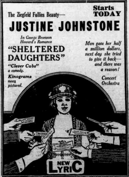 Newspaper ad for the American film Sheltered Daughters (1921) with Justine Johnstone, on page 11 of the May 24, 1921 Duluth Herald.